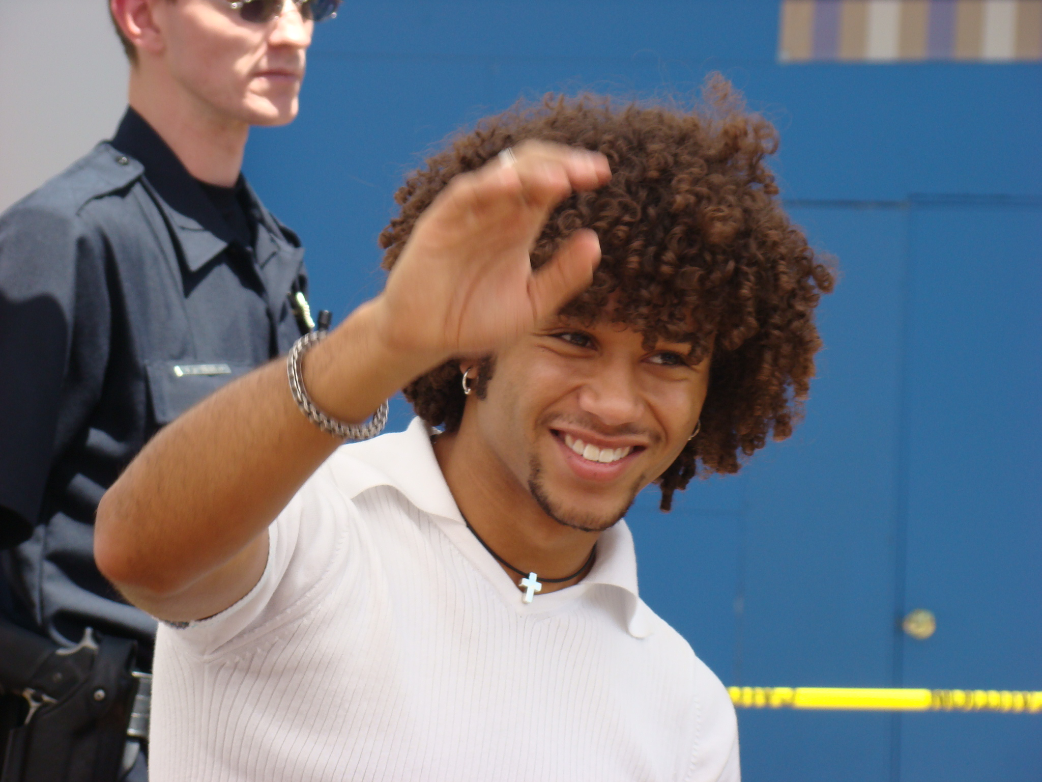 Corbin Bleu in 2007.